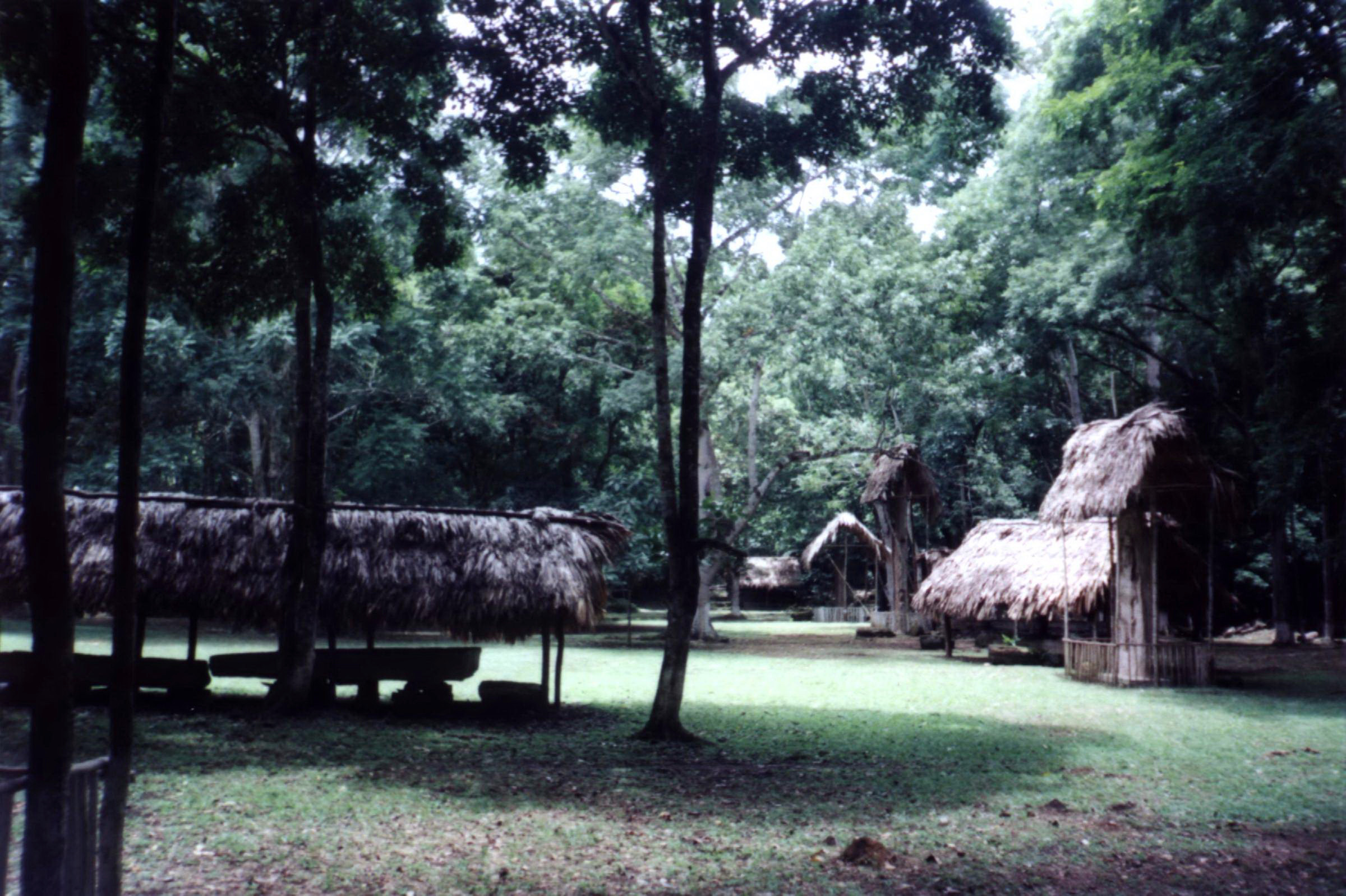 View of Dos Pilas, Late Classic Maya archaeological site, Petén.